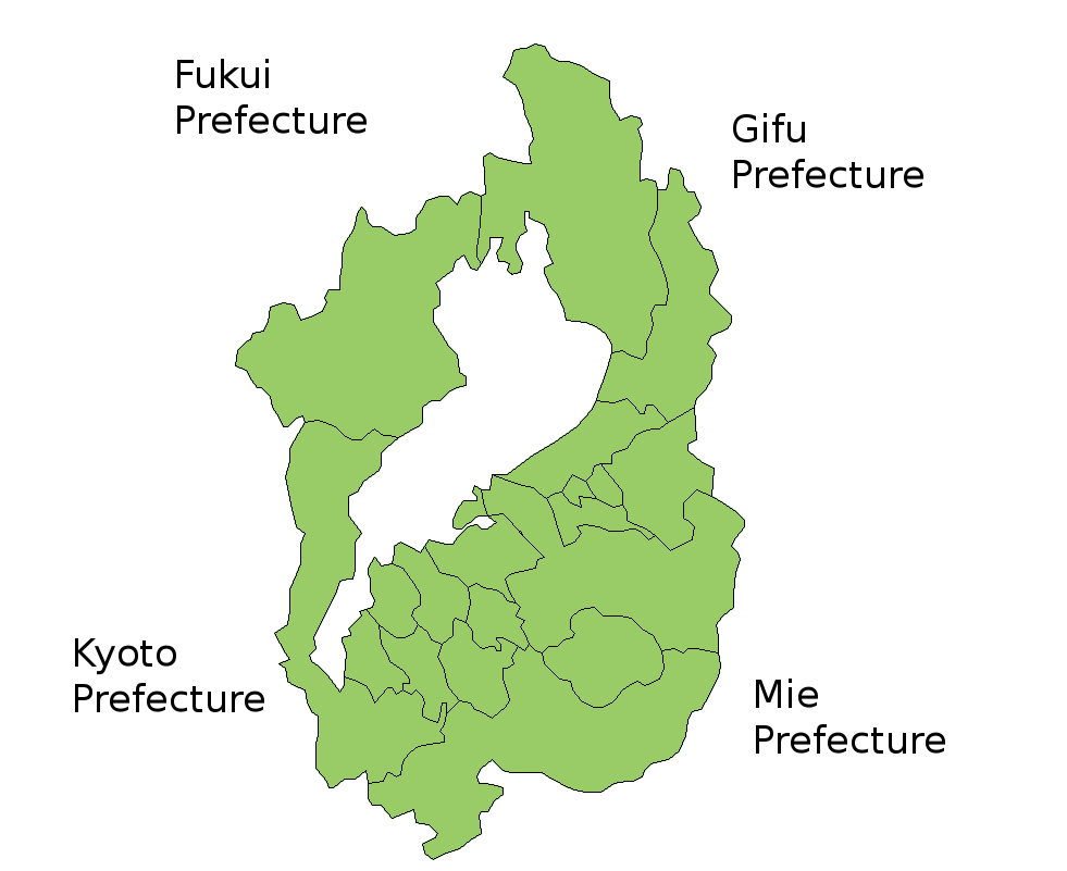 Map of Shiga Prefecture, Japan. Thanks to Aoki Shigenobu and [1]. Colors from Image:TokyoMapCurrent.png by User:Fg2.